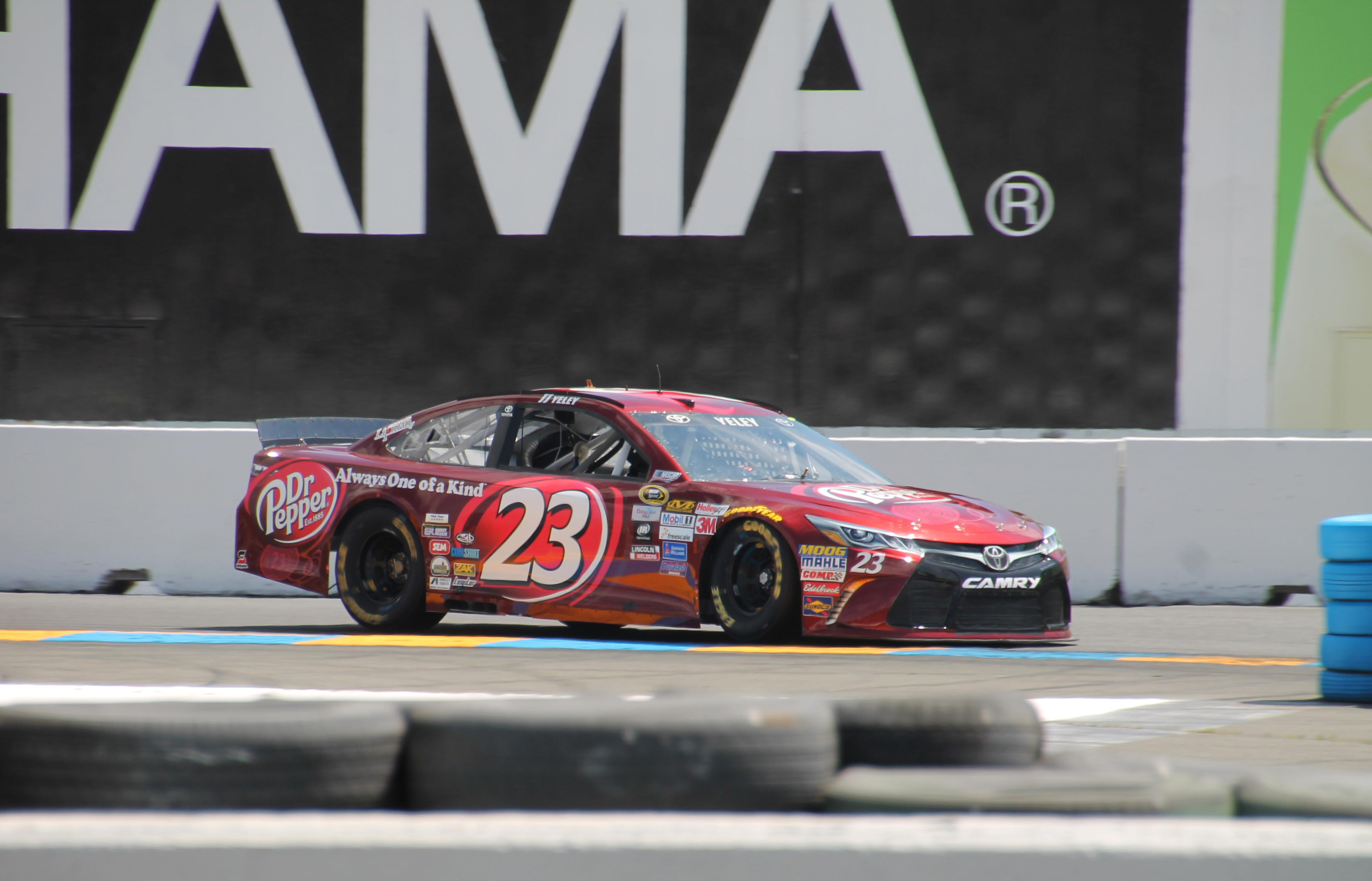 J.J. Yeley during 2015 Toyota/Save Mart 350 qualifications. Sonoma, California